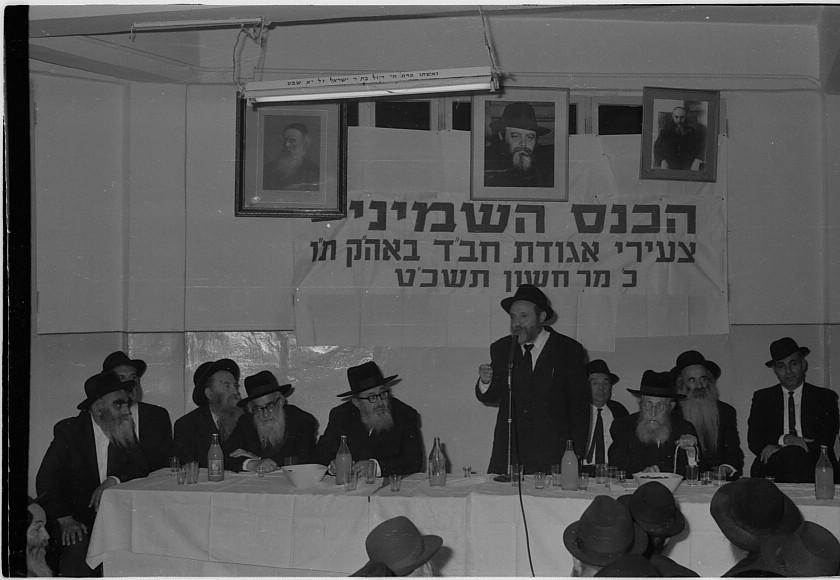 Religion in Israel